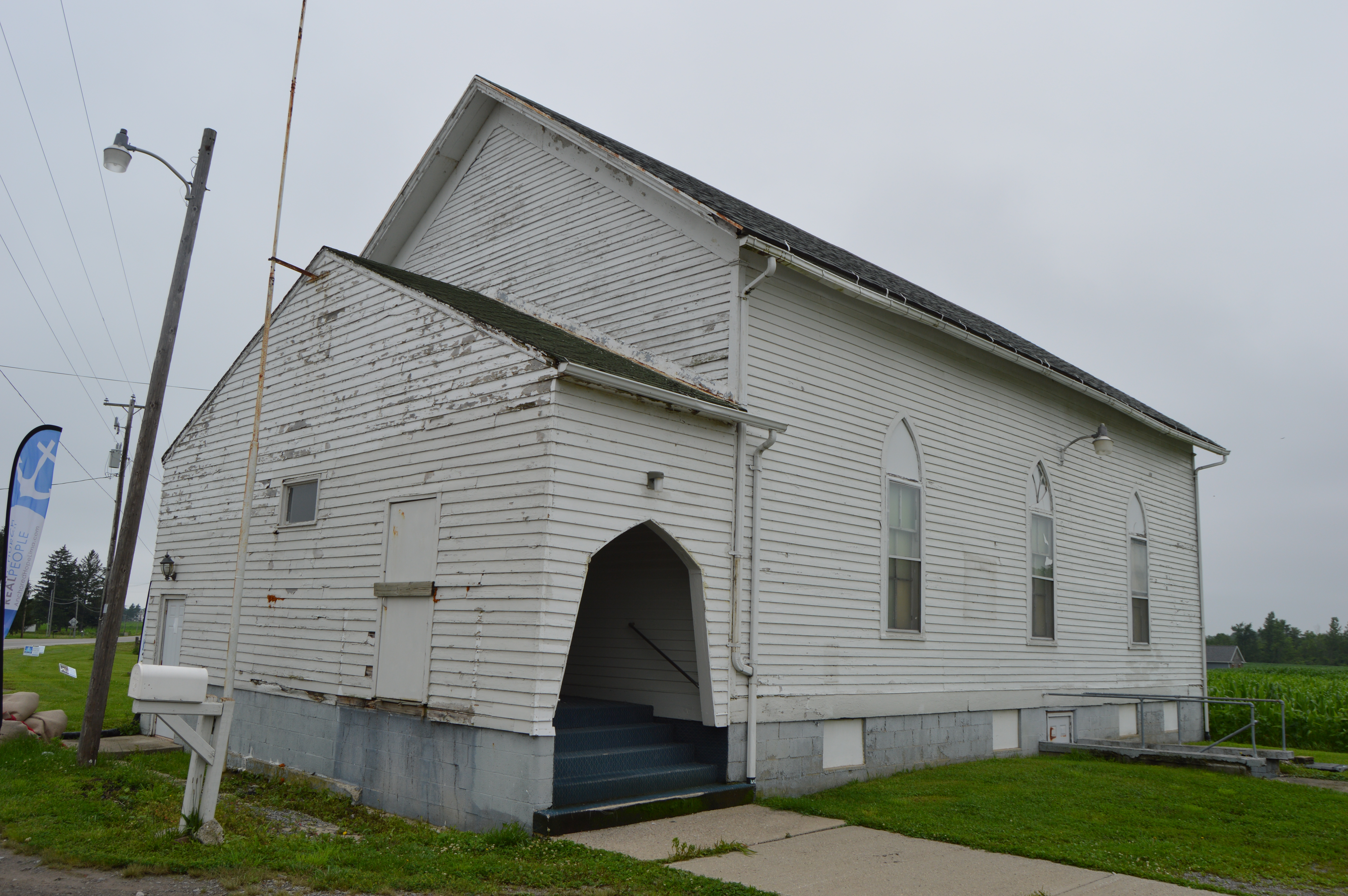 Front and eastern side of Anchored Hope Baptist Church (formerly Perry Chapel), located at the junction of State Route 117 and Perry Chapel Road southeast of Lima in Perry Township, Allen County, Ohio, United States. It was built in 1920.